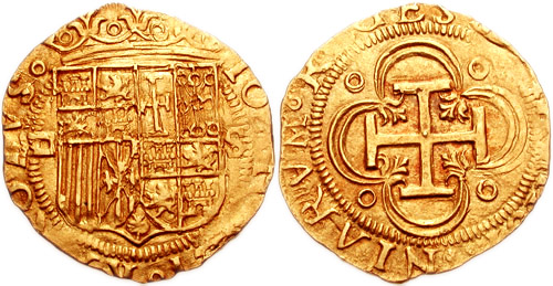 Spain. Joan & Charles I. 1504-1555. AV Escudo (24mm, 3.38 gm, 9h). Seville mint. IOANA ET KAROLVSº, crowned coat-of-arms; square d (P) and S at sides +HISPANIARVM REGES SICILIA, cross with fleurs in quadrilobe. ME 2986; Calicó & Trigo 43/49.